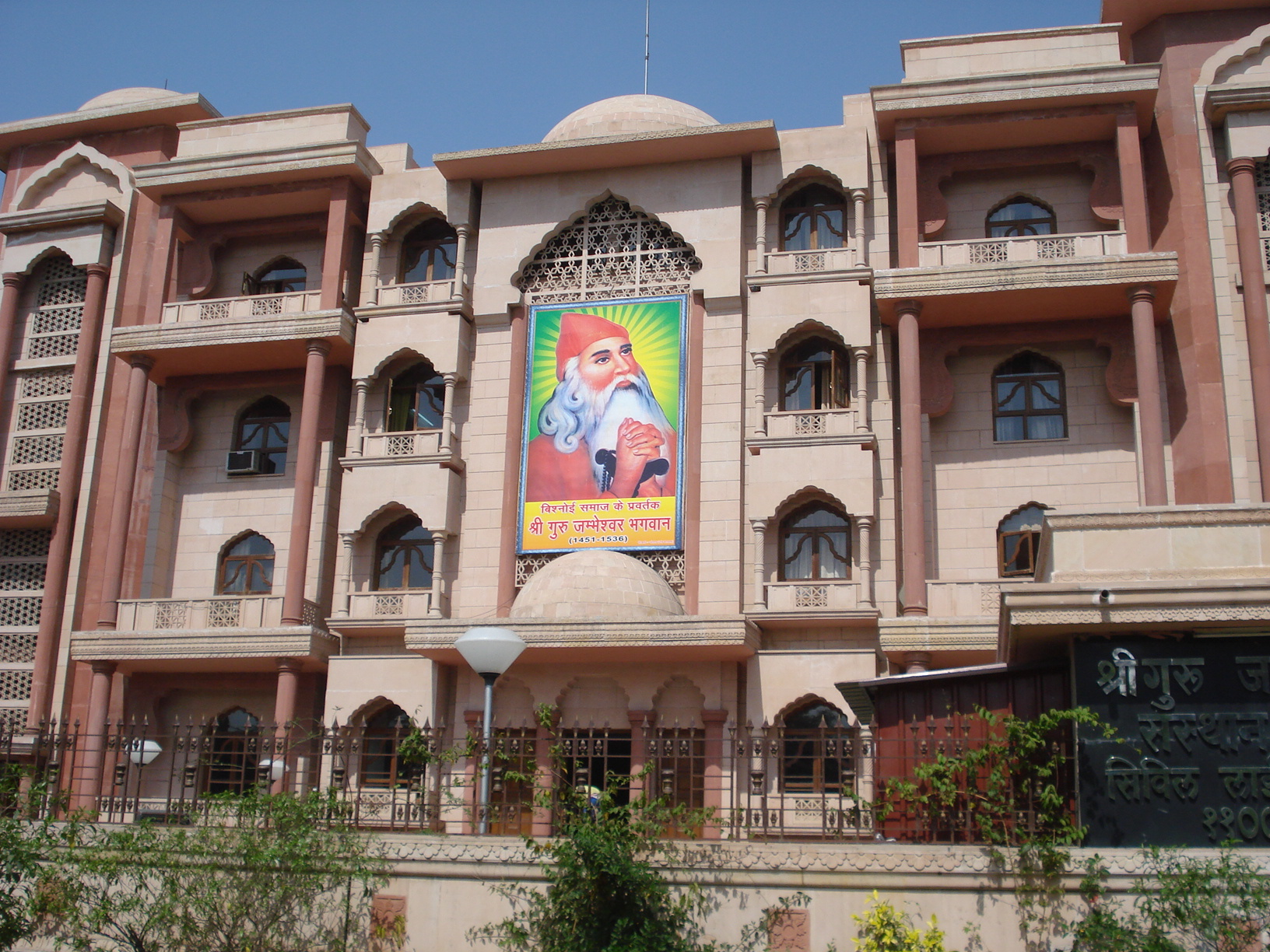 Bishnoi Bhavan, New Delhi